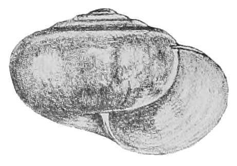 Drawing of apertural view of the shell of Staffordia staffordi